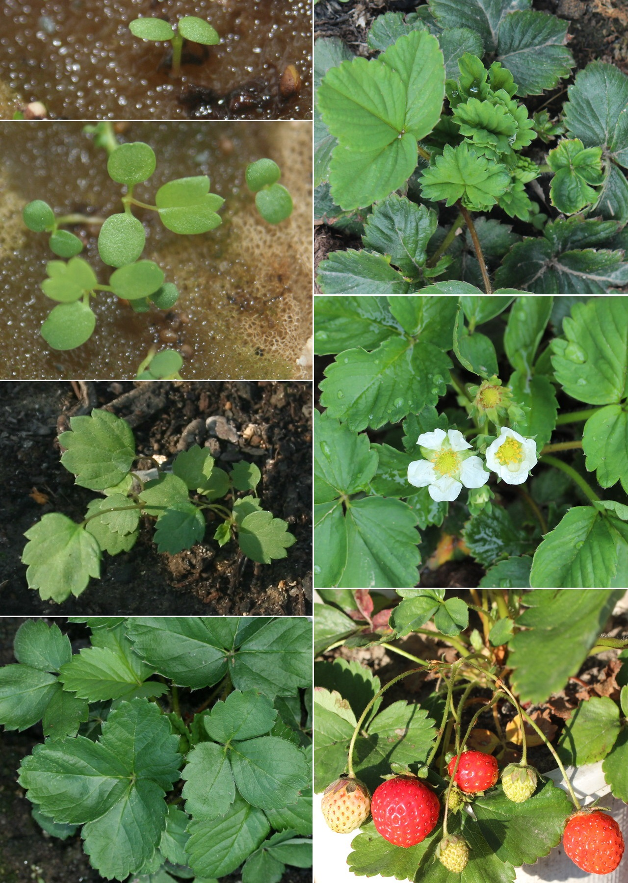 Biological life cycle of Fragaria x ananassa Duchesne ex Rozier